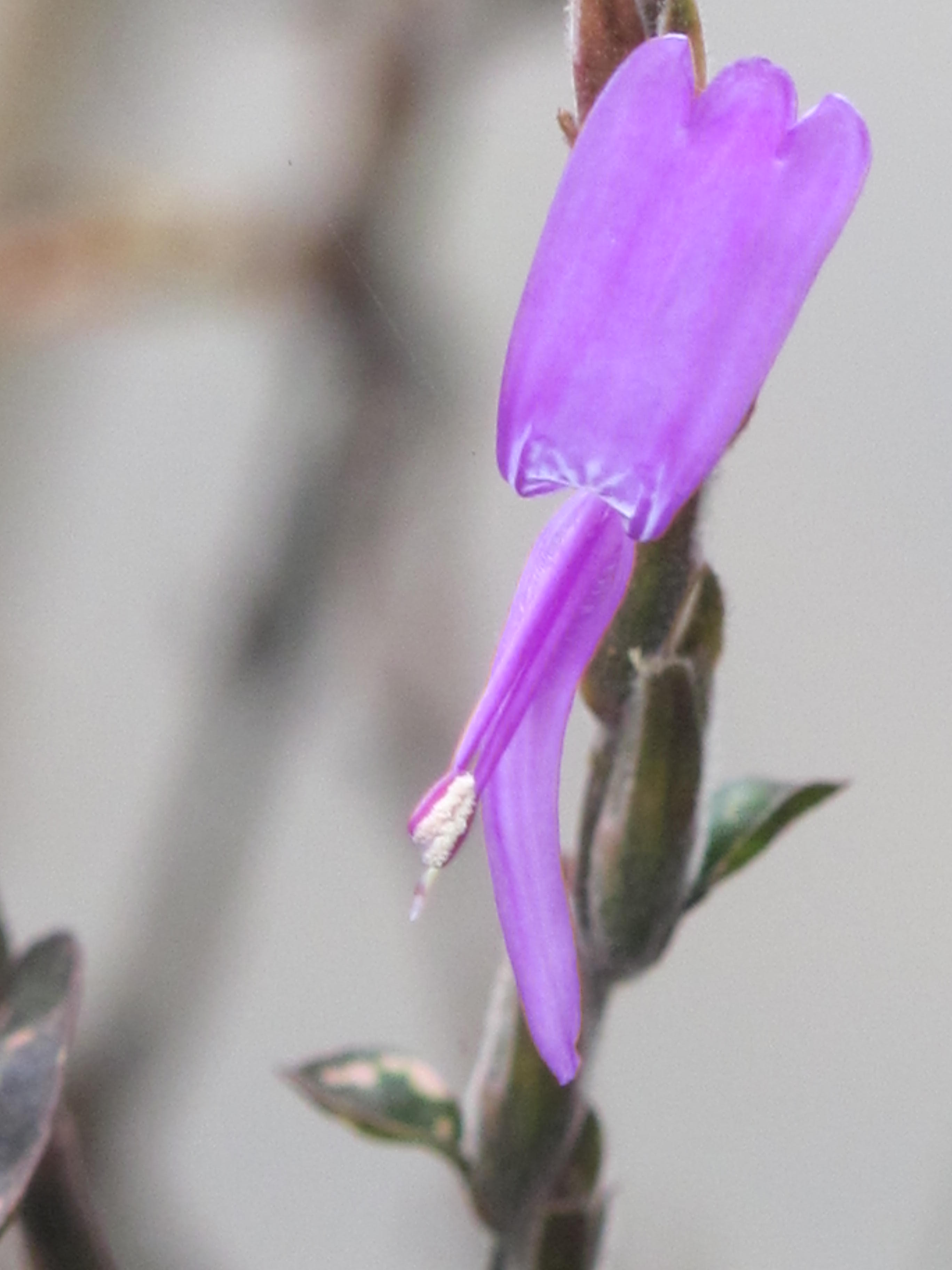 Flower of Hypoestes phyllostachya at Ambatomaro, Antananarivo, Madagascar, near 18°54'13.69"S, 47°34'08.87"E